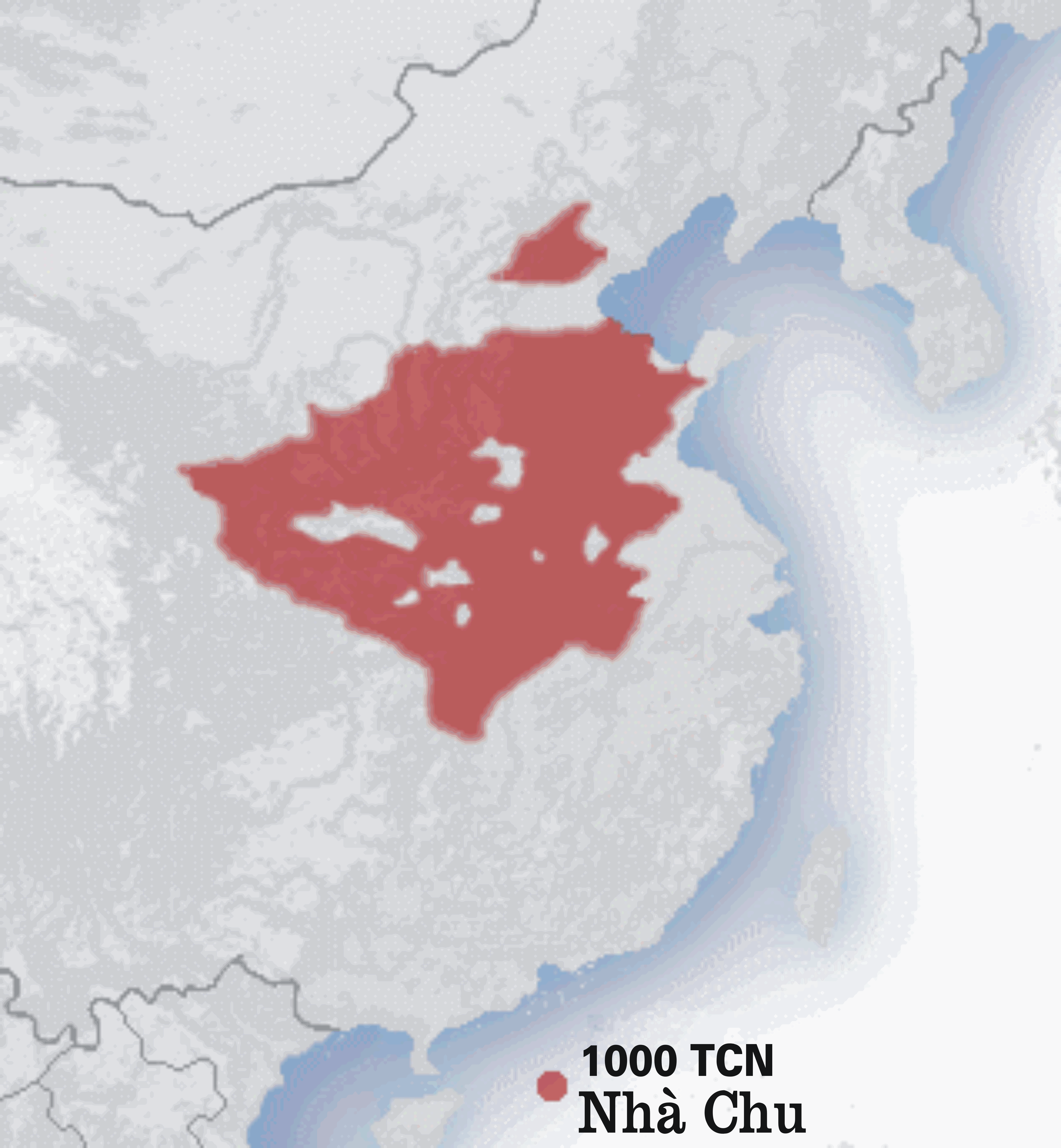 The approximate territory of the Zhou dynasty in China